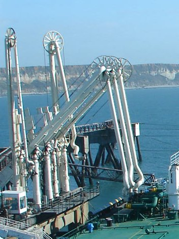 Close up of marine loading arm cropped from Image:Unloading_tanker.jpg